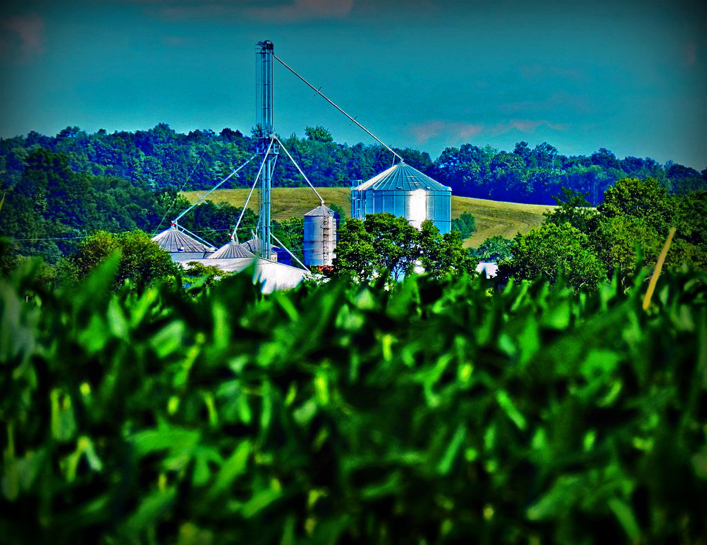 As viewed from the driveway of the Piketon sewage plant on Old OH124 in Pike County, Ohio.